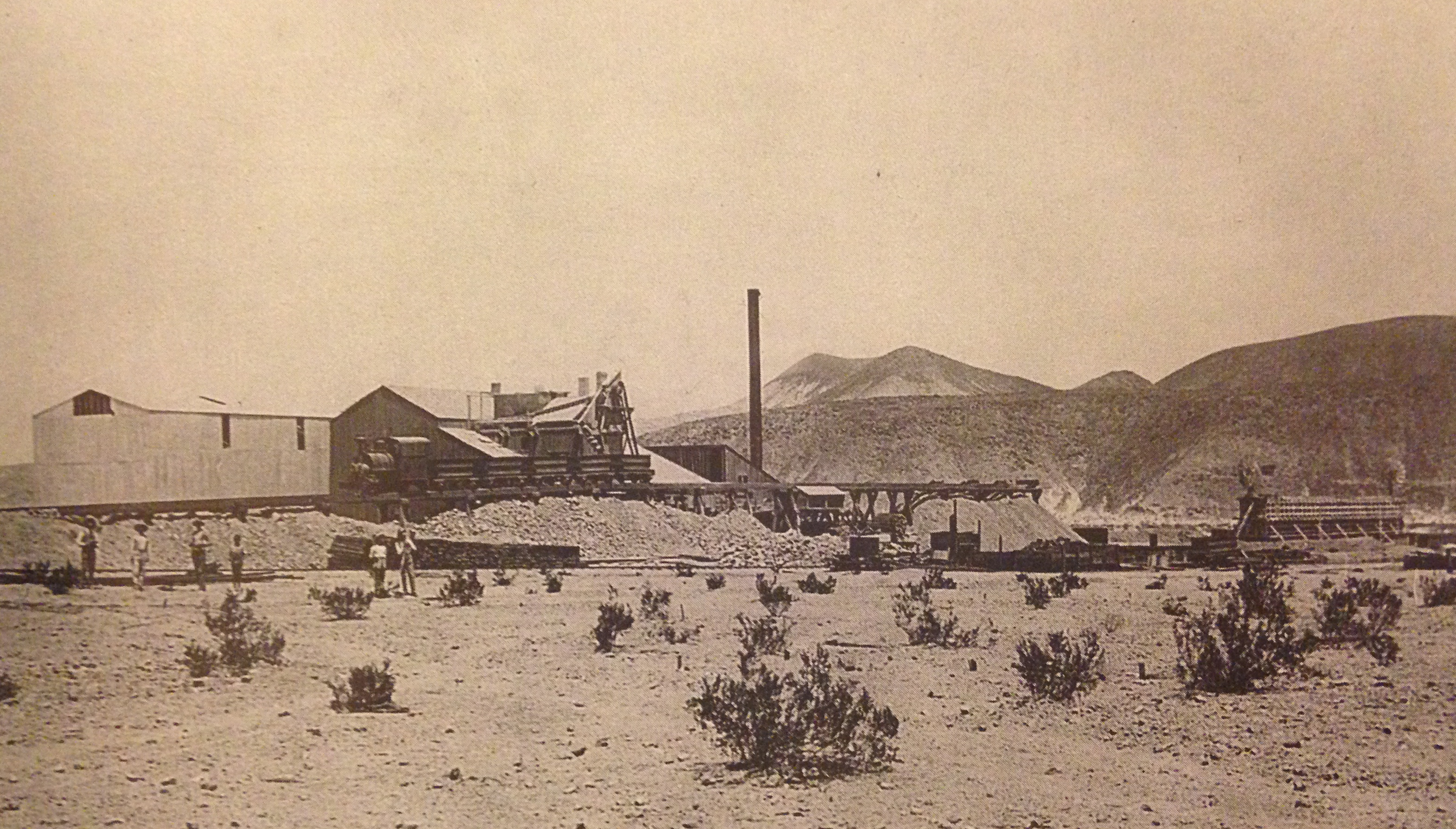 The Columbia Mill at Daggett, CA, with narrow gauge railroad servicing it to process borax ore from the nearby Columbia Mine